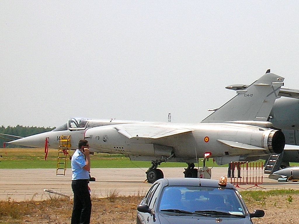 Spanish Air Force Mirage F1 in the aviashow "Kilkime" (Kaunas, Lithuania).